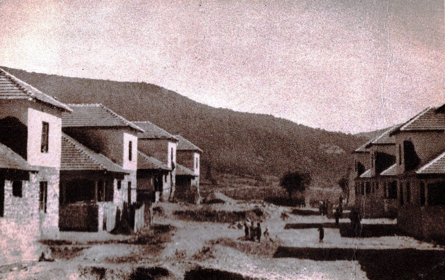 A view of Mavrovo SR Macedonia, before 1950. This media file is produced by Wikipedian in Residence in Category:Wikipedian in Residence at DARM in 2017.